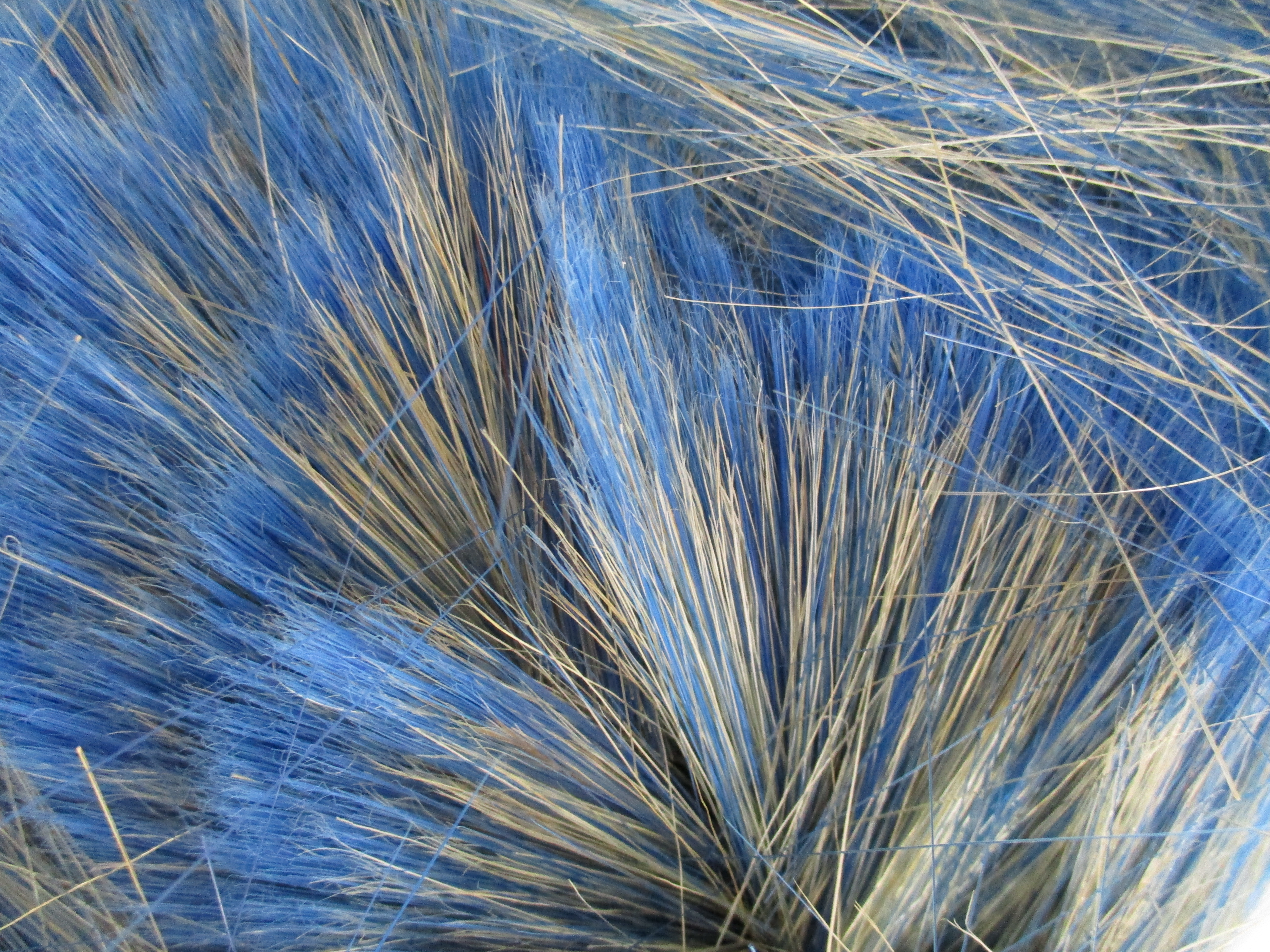 Mixture of blue polyester filaments (PBT) and bristles used for paintbrushes (dressed by Moissonnier)